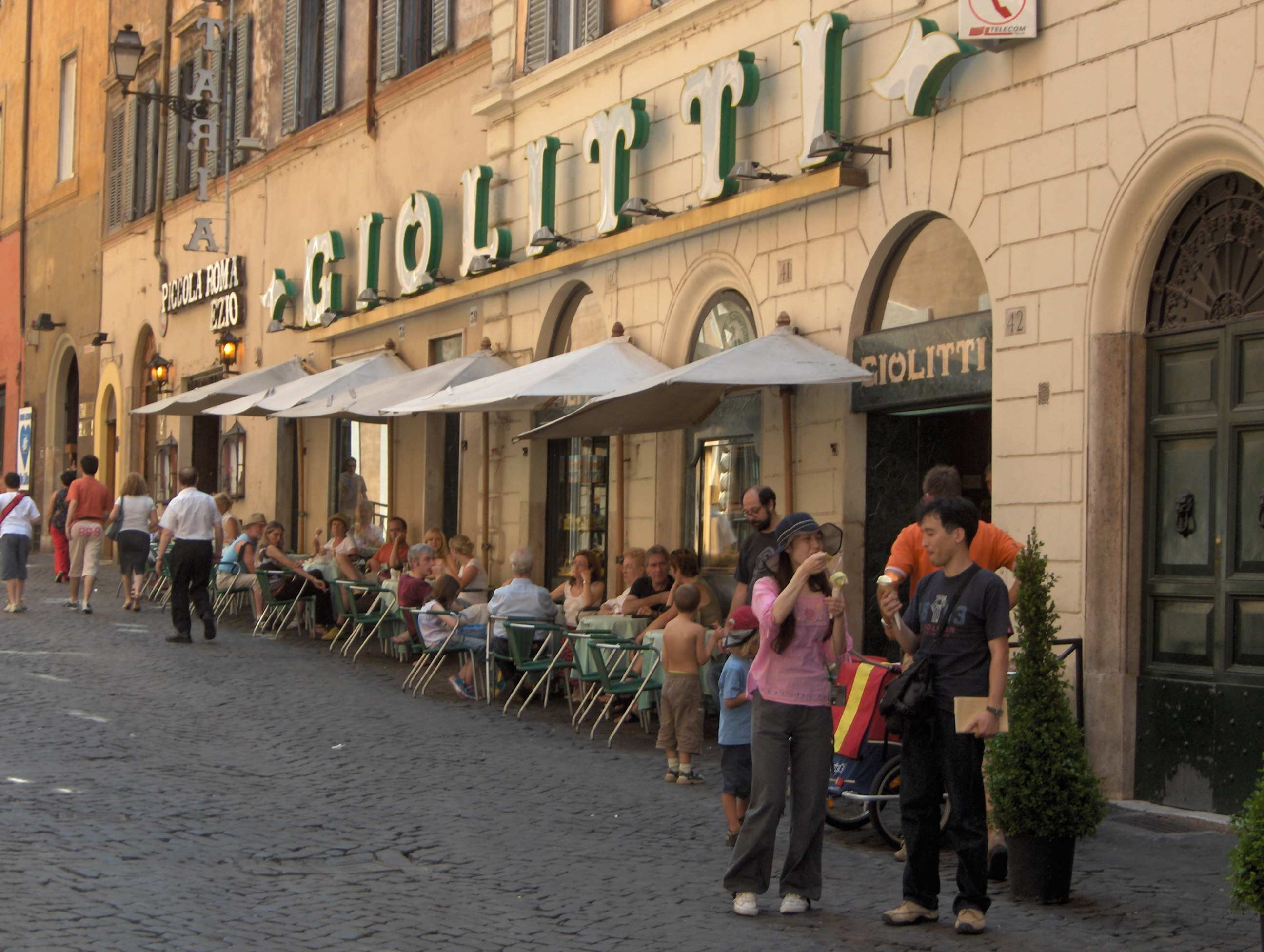 This is a picture of Giolitti, a cafe and ice cream parlour in Rome, Italy. The picture was taken by Tino Warinowski (User:Chino) in June 2006 and is hereby released to the public domain.